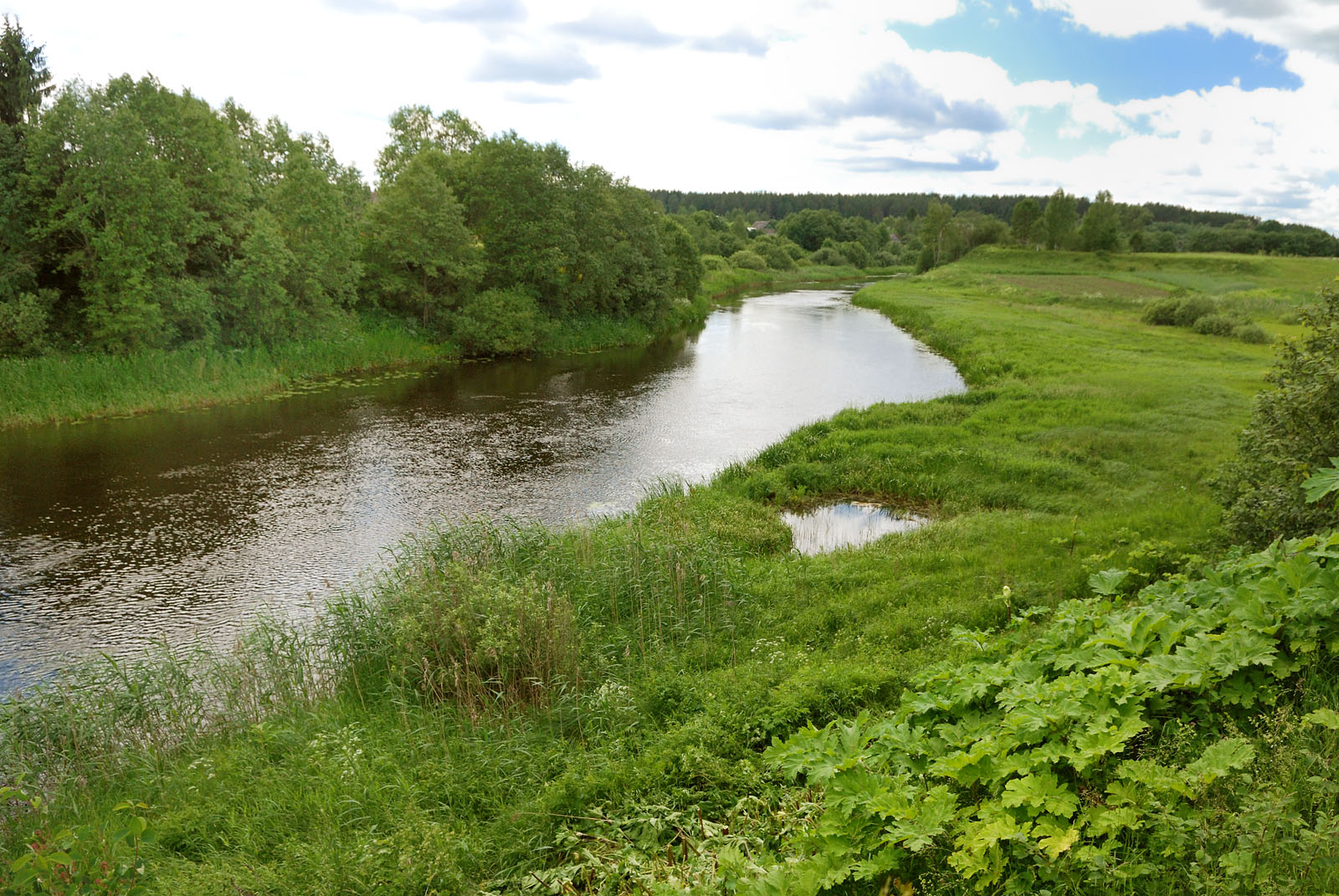 toropa river, near Toropets, Tver region, Russia